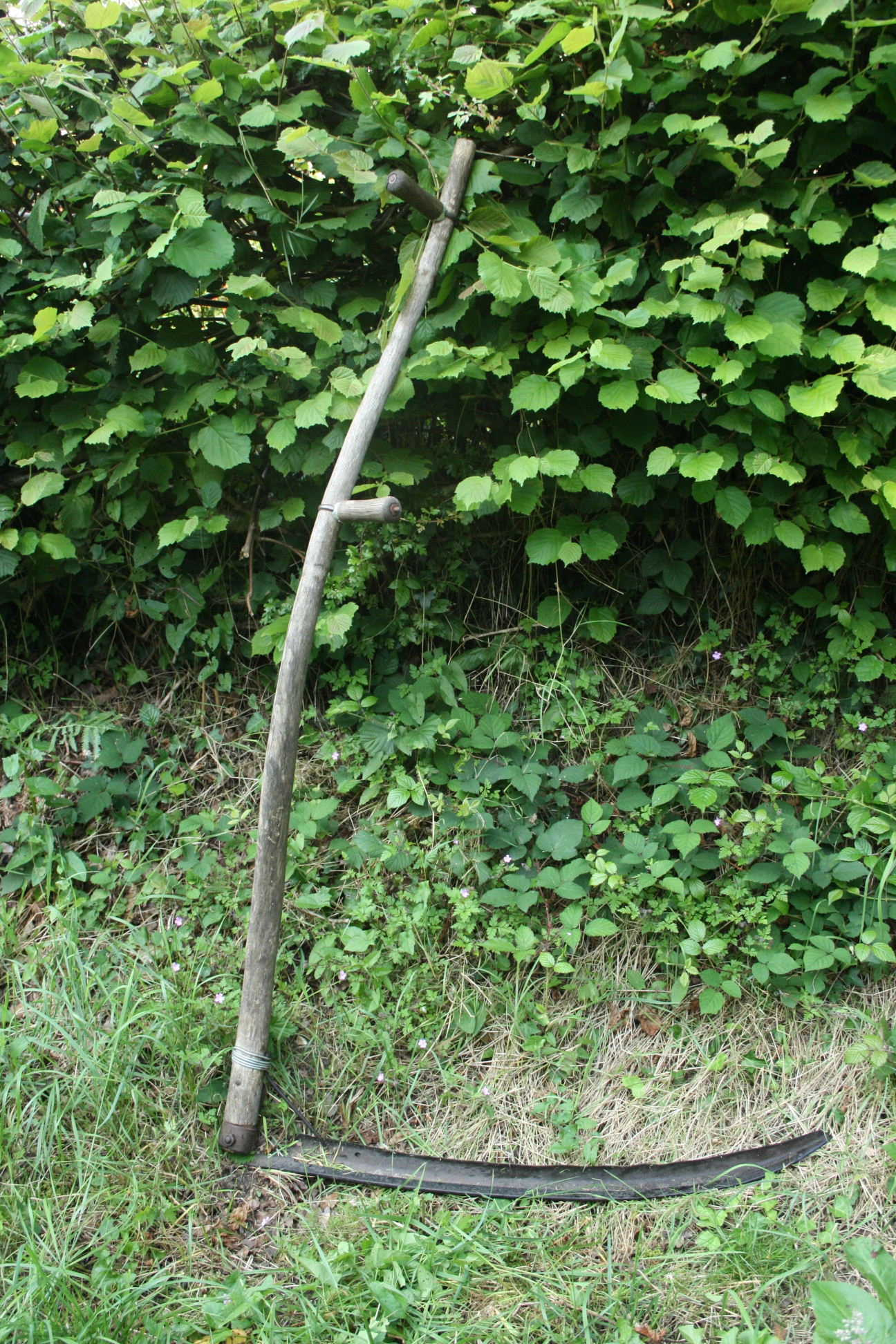 Traditional British pattern of scythe, in operating position.